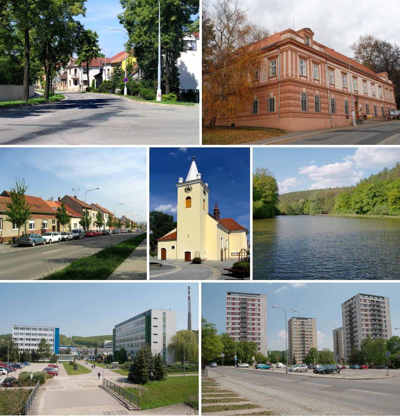 Gromešova street in Řečkovice quarter, Brno, Czech Republic